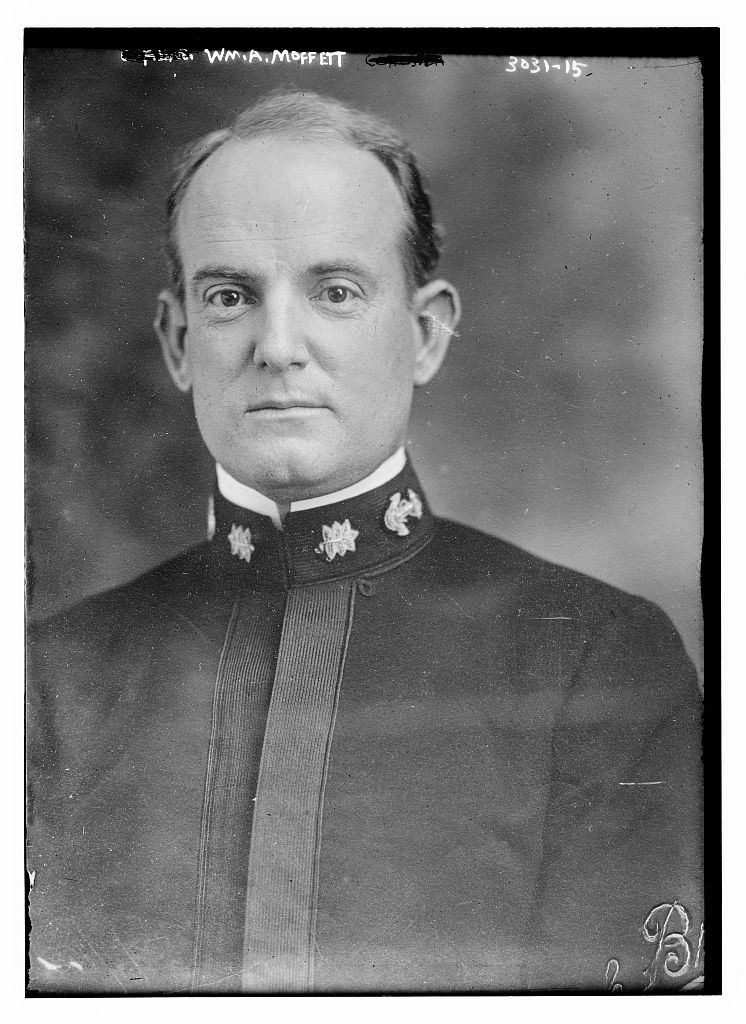 Bain News Service,, publisher. William Adger Moffett [between ca. 1910 and ca. 1915] 1 negative : glass ; 5 x 7 in. or smaller. Notes: Title from unverified data provided by the Bain News Service on the negatives or caption cards. Forms part of: George Grantham Bain Collection (Library of Congress). Format: Glass negatives. Repository: Library of Congress, Prints and Photographs Division, Washington, D.C. 20540 USA, General information about the Bain Collection is available at Persistent URL: Call Number: LC-B2- 3031-15